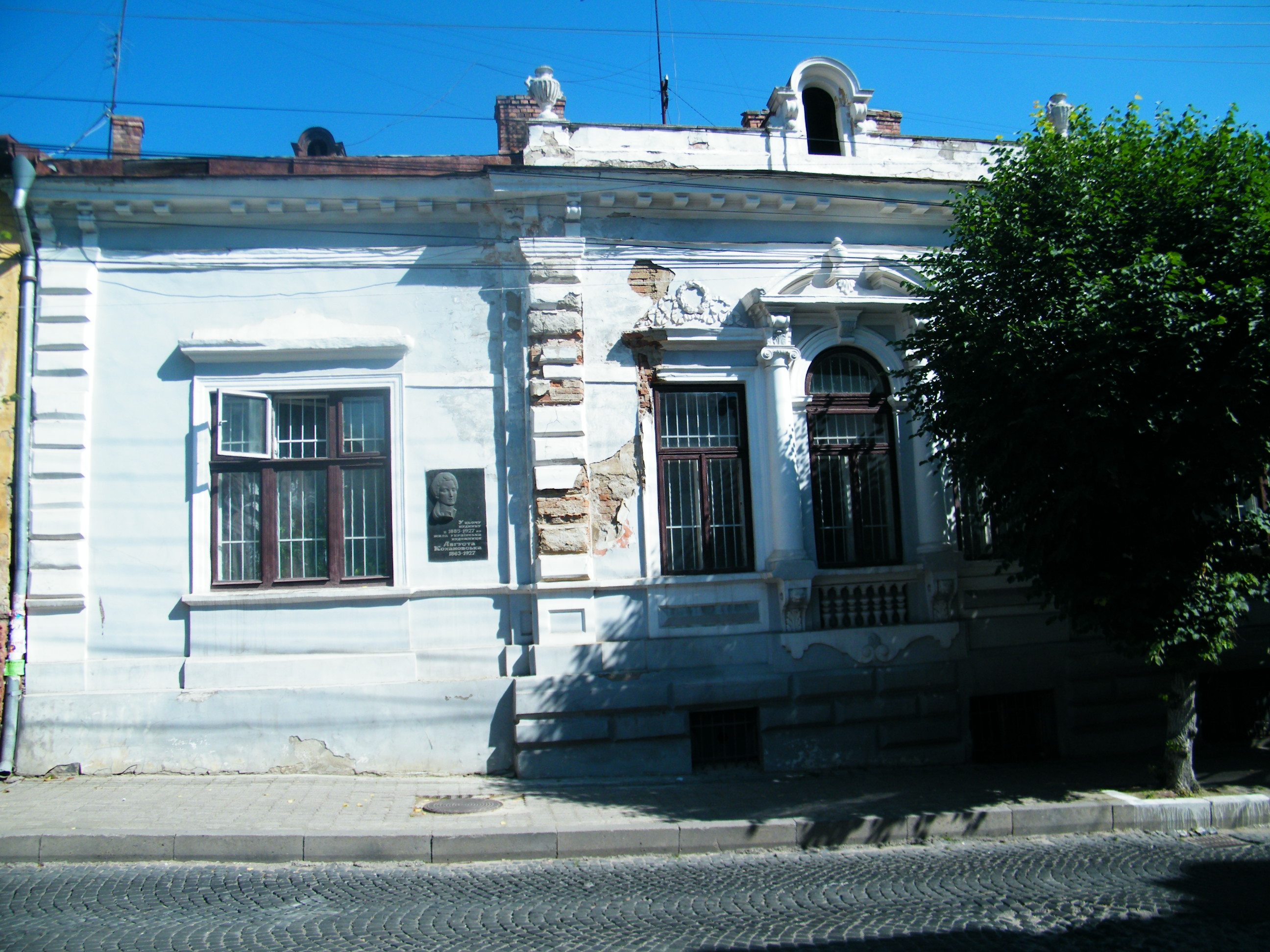 Building of Augusta Kochanowska in Chernivtsi